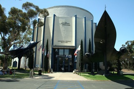 Aerospace Museum in Balboa Park San Diego, California